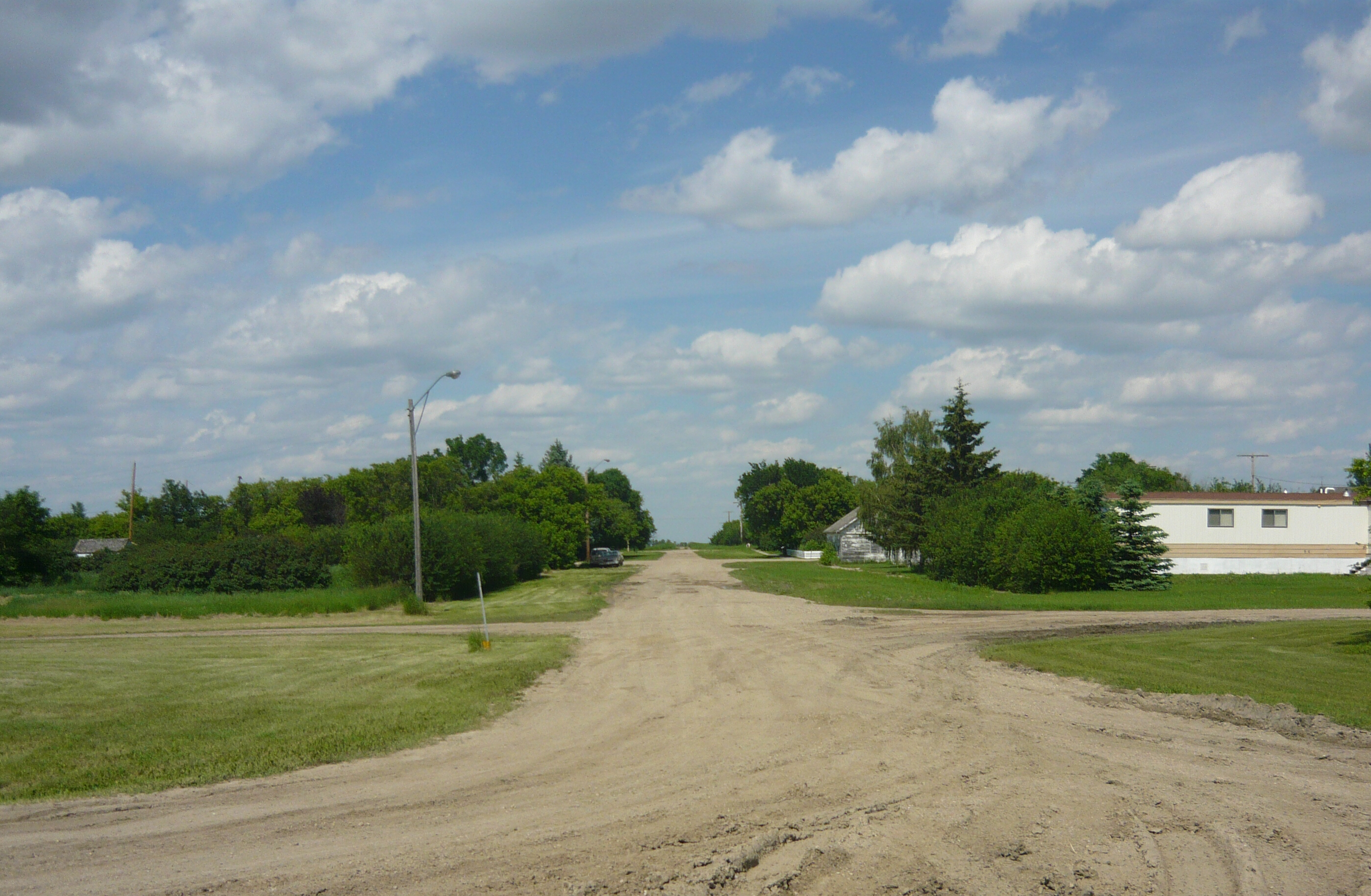 Main Street in Zelma, Saskatchewan, Canada. Taken from the intersection of 1st Avenue and Main Street, looking northeastward.